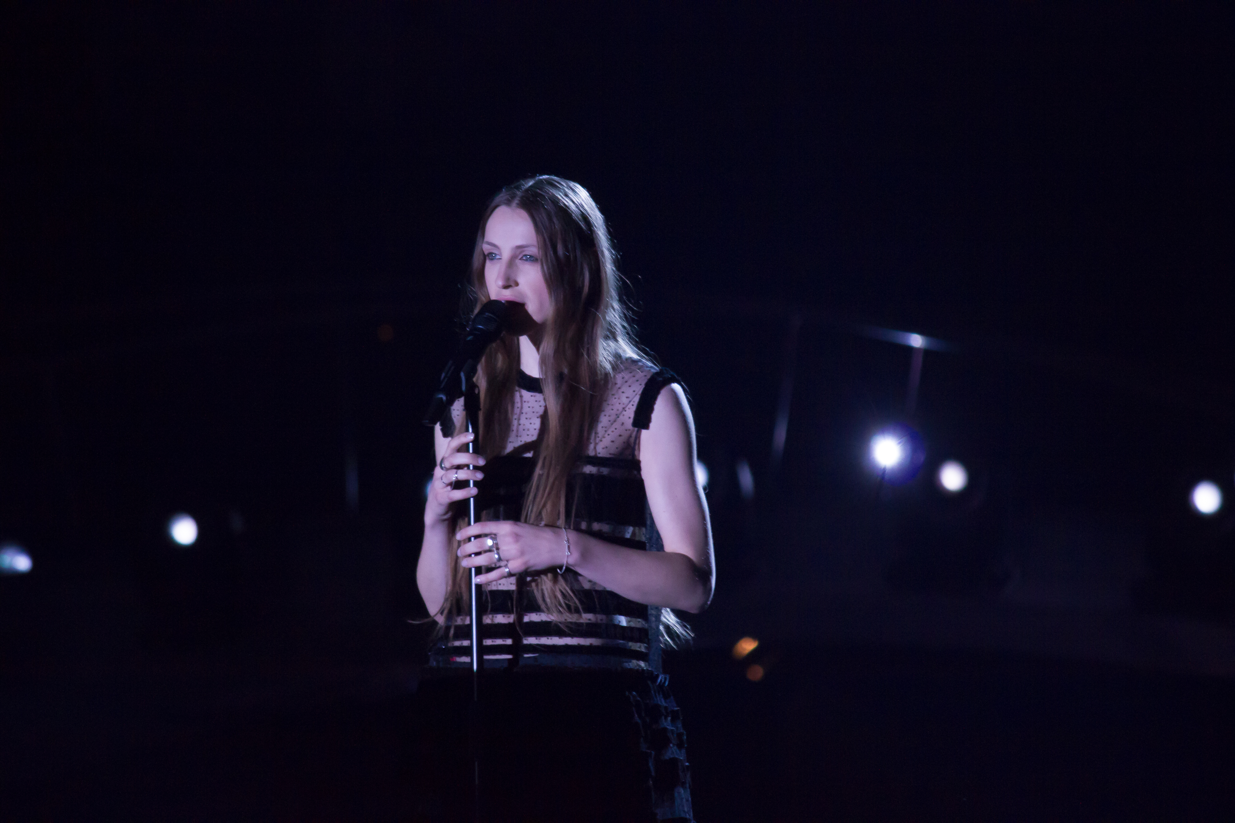 Sennek representing Belgium with the song "A Matter of Time" during a rehearsal before the first semi final of the Eurovision Song Contest 2018 in Lisbon.